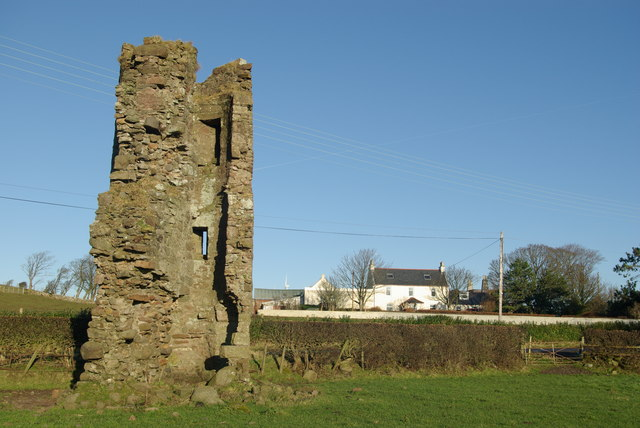 Montfode Castle & farm Remains of a 16th-century Z-plan tower house of the Montfodes of that Ilk. The family became extinct in the 17th-century. In the 19th-century the castle was mostly demolished; the stonework being used in the construction of a nearby mill.